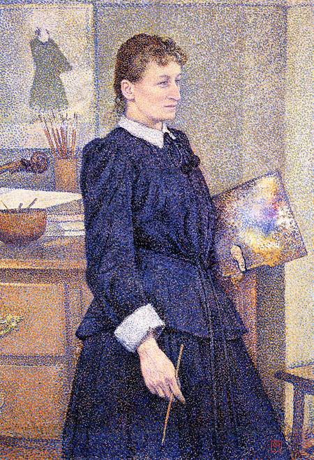 Anna Boch in her Atelier